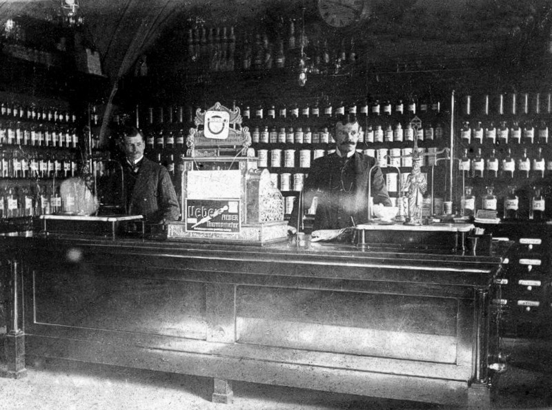 Apteka Kawskich